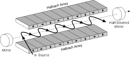 Free Electron Laser Diagram